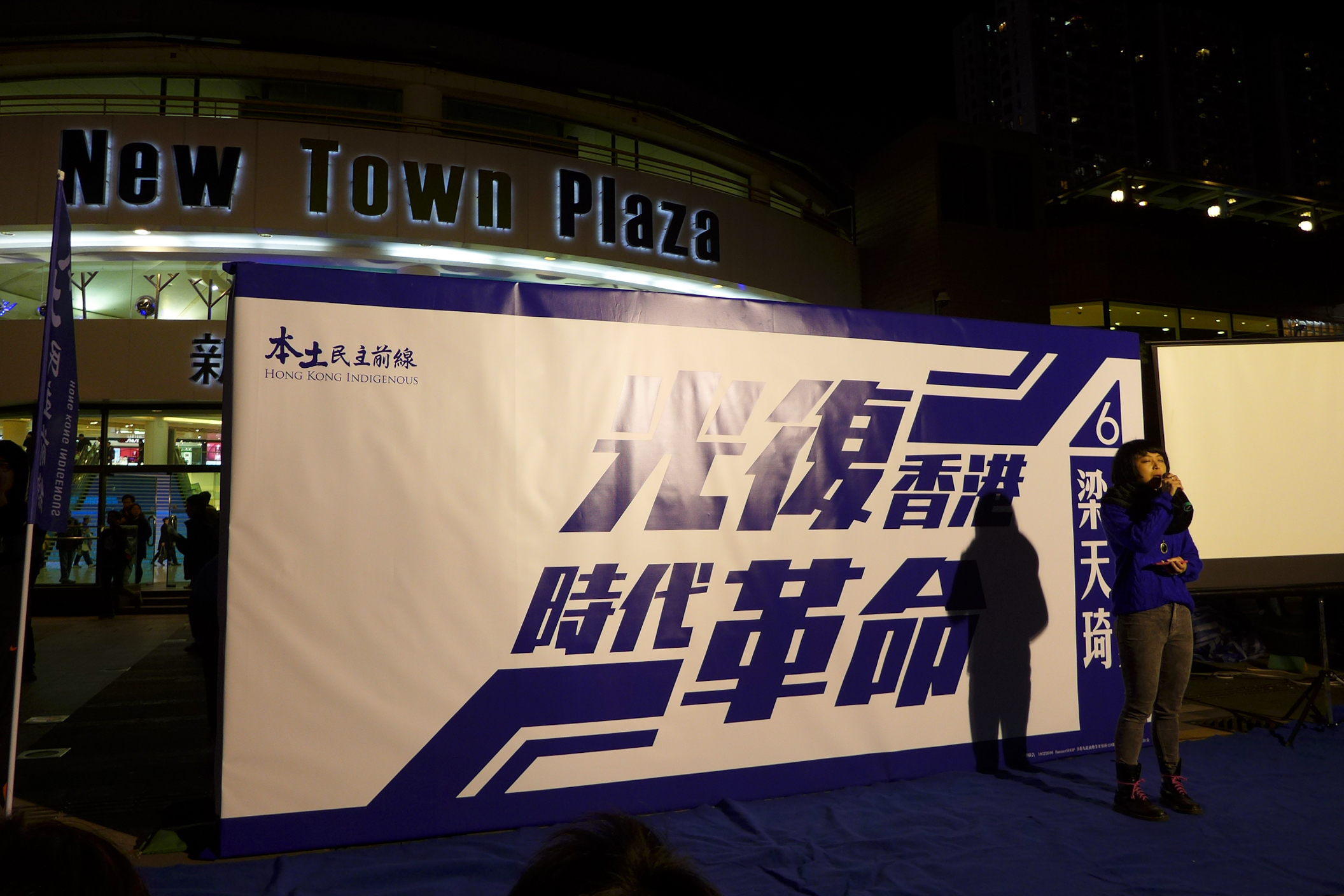 Election promotion for Edward Leung stage